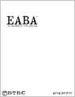 cover of EABA RPG rulebook, by Blacksburg Tactical Resource Center